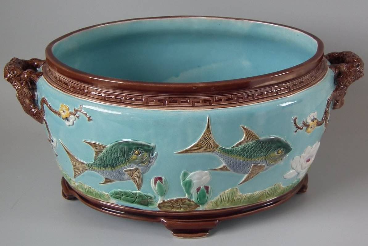 Coloured glazes